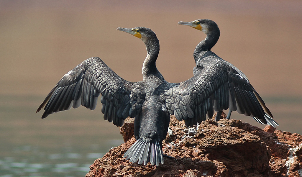 A pair of Great Cormorants, also called the Great Black Cormorant or Large Cormorant, clicked at the Banasura Sagar Dam located in Wayanad District of Kerala in the Western Ghats. It is a large black bird, but there is a wide variation in size in the species wide range. This is a very common and widespread bird species. It feeds on the sea, in estuaries, and on freshwater lakes and rivers. They can dive to considerable depths, but often feed in shallow water. It frequently brings prey to the surface.